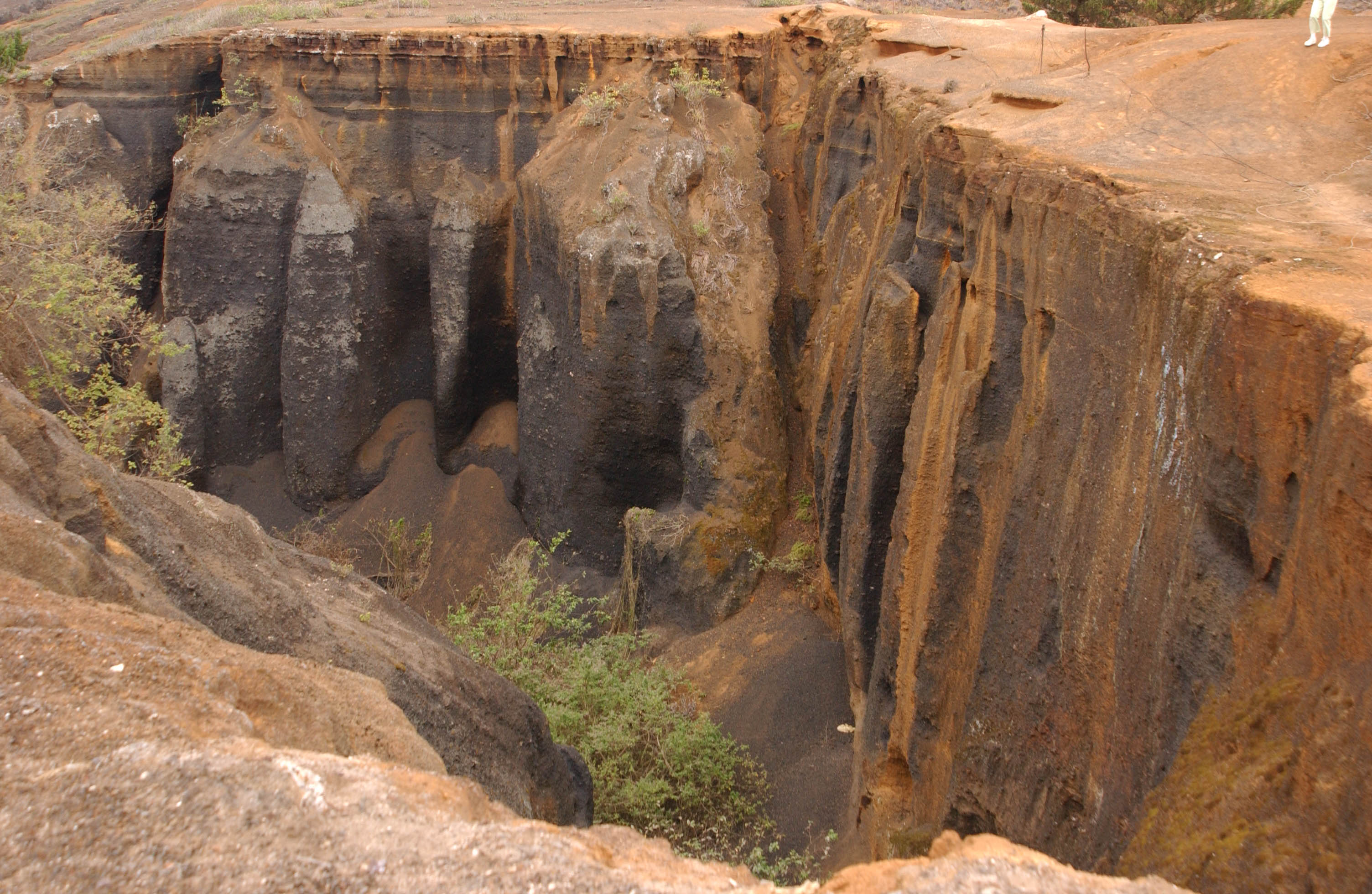 ASCENSION IS A VOLCANIC ISLAND AND THE DEVILS ASHPIT IS LOCATED RIGHT NEAR THE FORMER NASA TRACKING STATION WHICH SOME CALLED DEVIL'S ASHPIT STATION